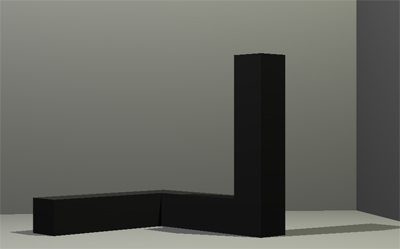 Free Ride by Tony Smith - 3D rendering